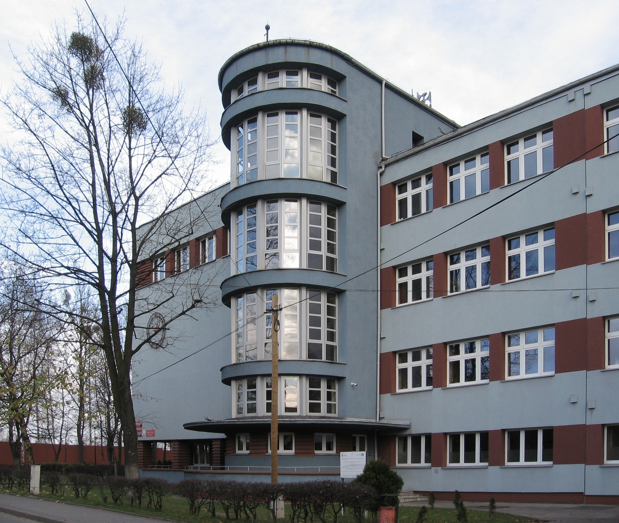 The building of the first secondary school in Piekary Śląskie-Szarlej, Poland, designed by Karol Schayer, built ca. 1930–1932.